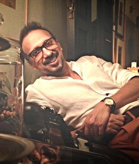 This is the picture of Asim Raza, the director of The Vision Factory). It was taken by me and is free for use.